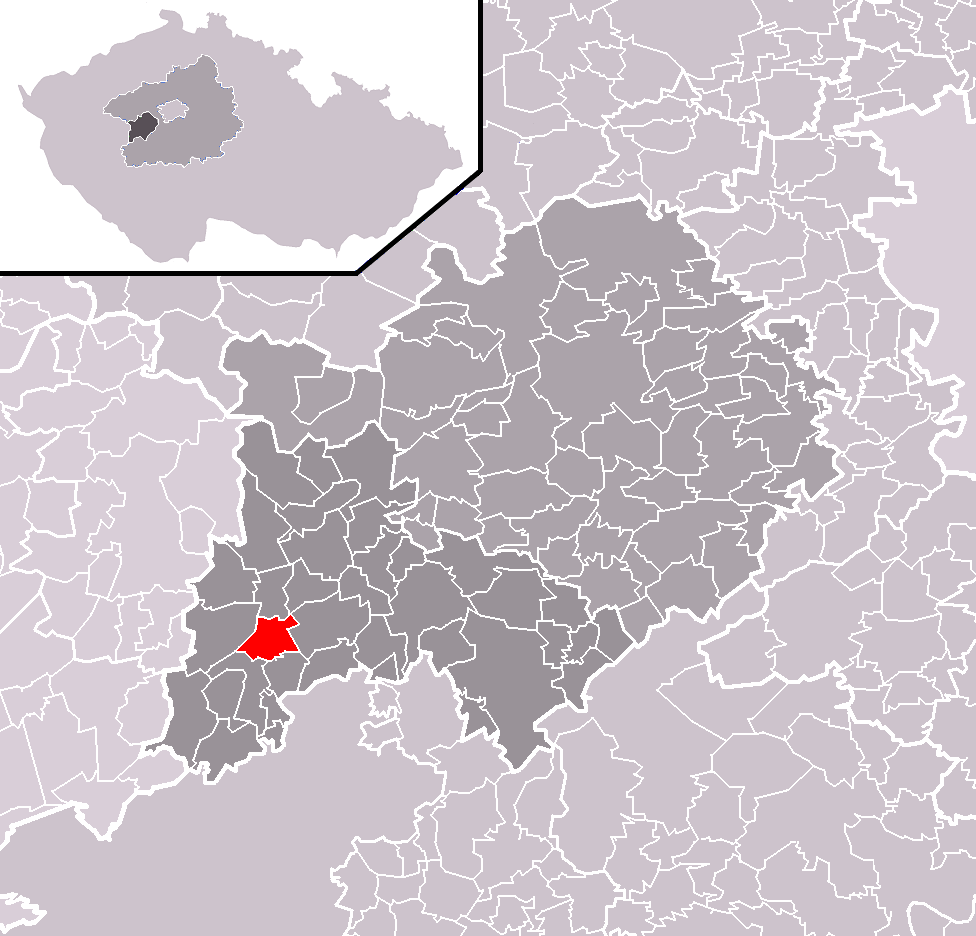 Location of Osek municipality within Beroun District and administrative area of Hořovice as a Municipality with Extended Competence.